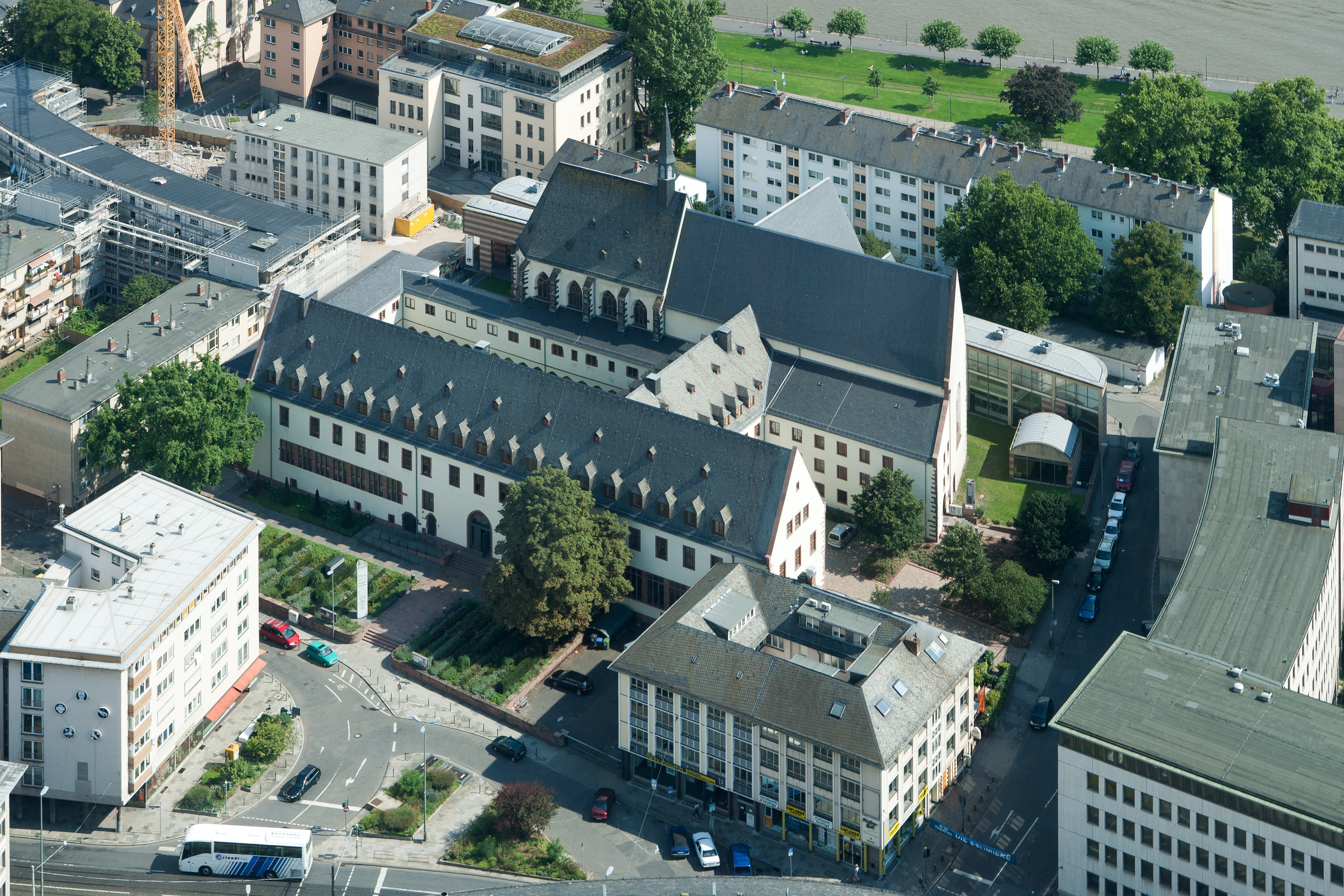 Frankfurt on the Main: Karmeliterkloster (Carmelite Abbey) as seen from the Commerzbank Tower